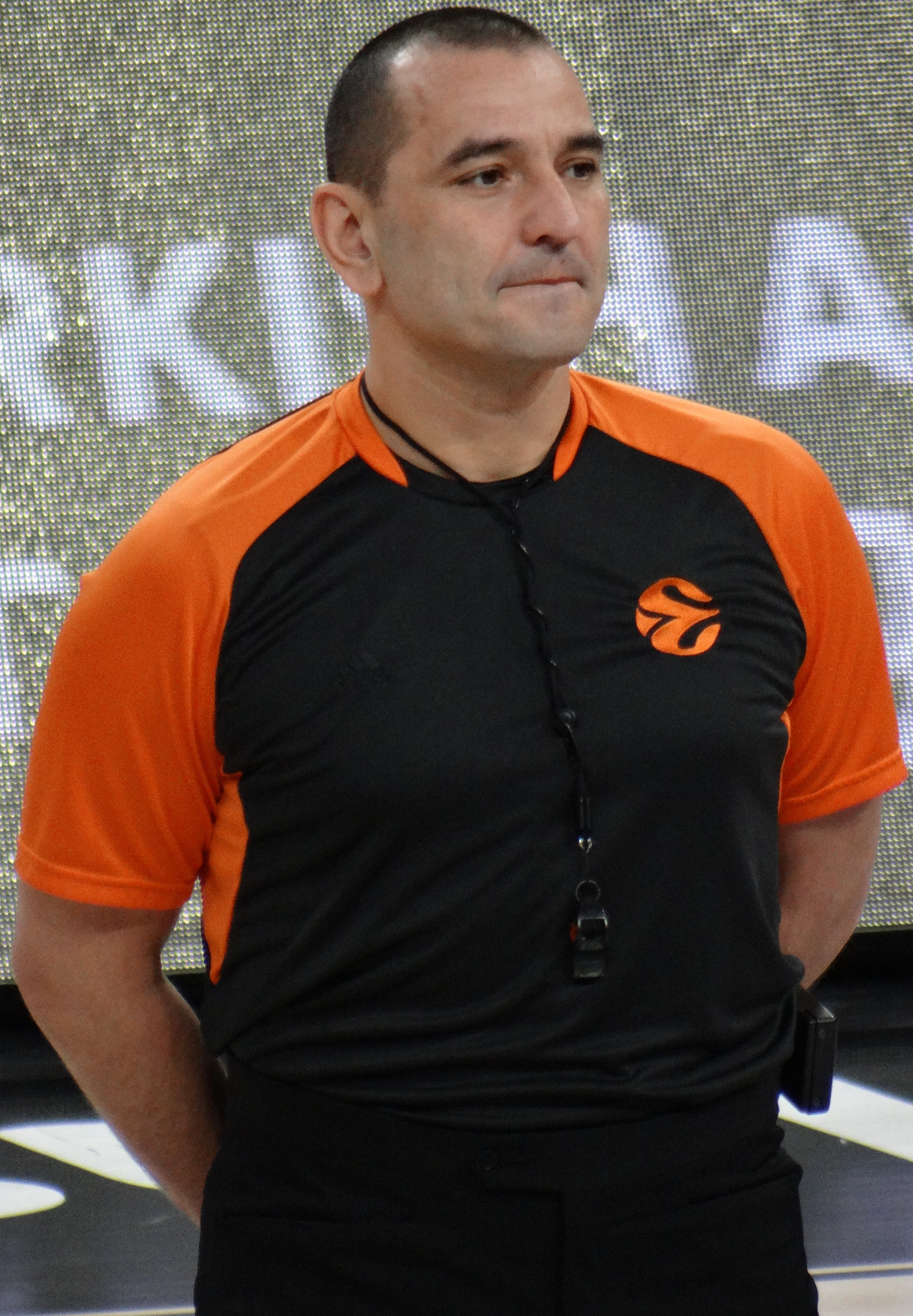 Ilija Belošević Anadolu Efes vs BC Žalgiris EuroLeague 20180223